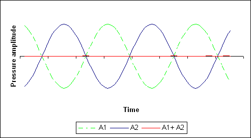 en:/Images